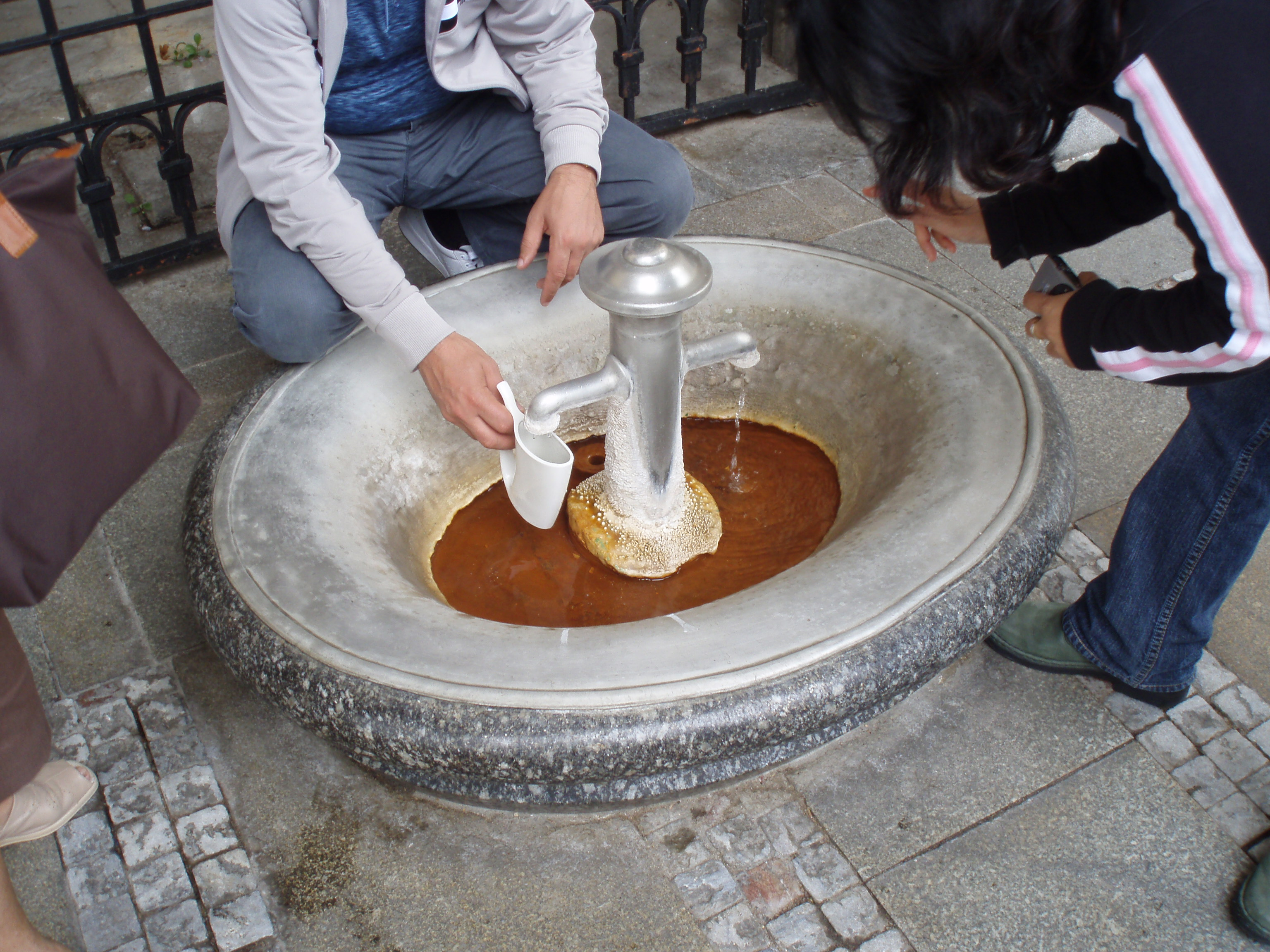 Rock Stream in Karlovy Vary, Czech Republic.